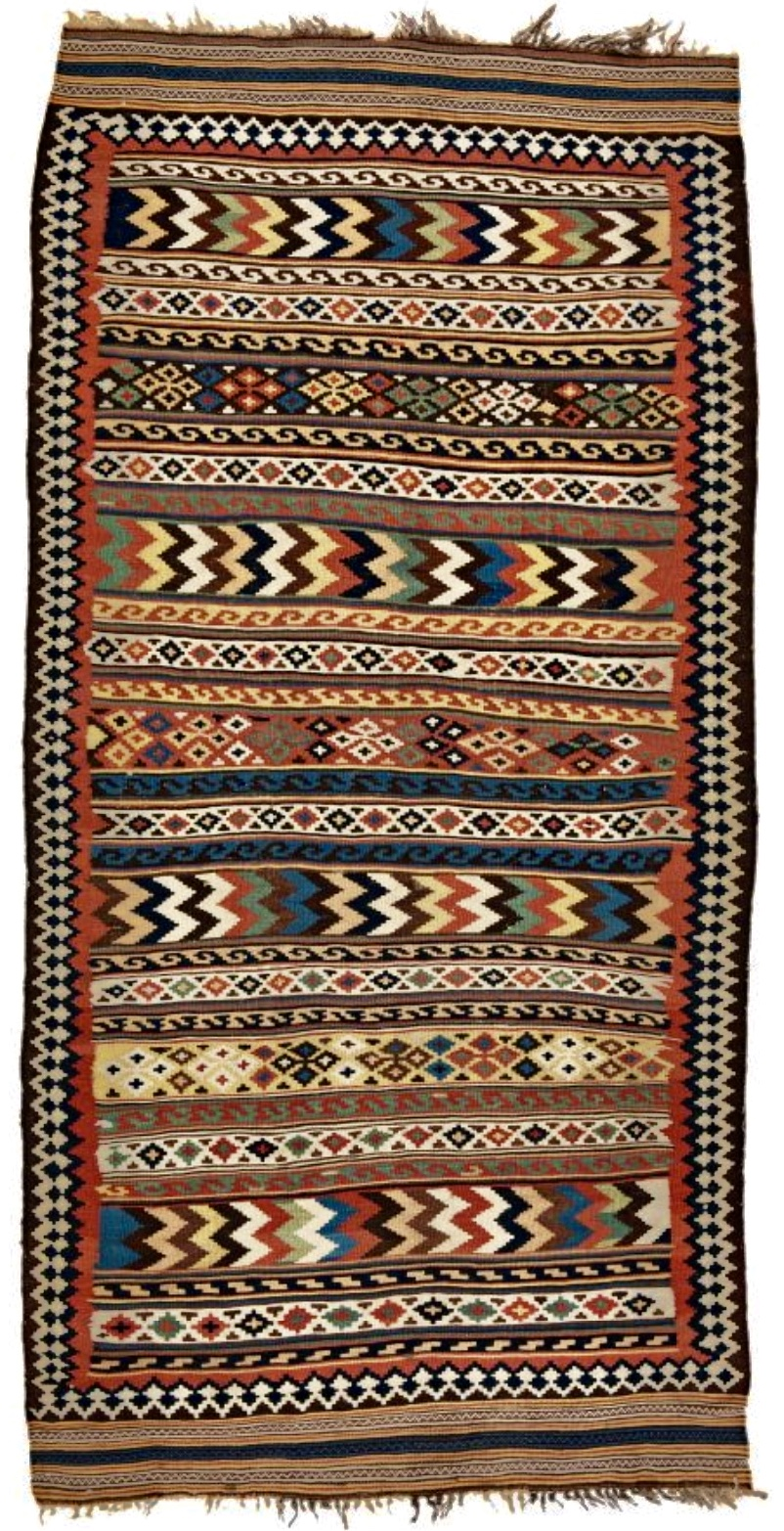 Southwest Persia, 19th century 315 x 157 cm (10’ 4” x 5’ 2”) Condition: very good, two small holes, few signs of use Warp: wool, weft: wool Southwest Persian kilims show mainly open fields or all-over designs, but to a lesser extent they come in banded versions as well. Colours and designs within the bands distinguish them easily from their Caucasian and northwest Persian counterparts. Among the striped kilim we find two subgroups. One has just bands from selvedge to selvedge; the other is framed by borders. These are almost universally reciprocal, often in dark brown or blue against white. These are sometimes accompanied by additional zigzag lines. It has been argued that this is dictated by the slit kilim technique, which wouldn’t allow long horizontal lines. It is charming to see how these zigzag lines seem to playfully interfere with the bands in the field, causing them to advance or withdraw. This group has usually elaborate elems of several colours with further zigzag motifs. Remarkably, this piece shows several different motifs in the bands. They follow a perfect rhythm and the colour changes are carefully placed. Especially interesting are the multicoloured dominant zigzag fields in an ‘M’ shape. In other examples of this group these are stepped triangles, which are less bold than in this piece. Often the stepped triangle bands alternate in direction, one from left to right, the next from right to left. In our piece all run to one side. This makes a horizontal viewpoint quite pleasing as it feels energetic and uplifting. As these kilim have been used as tent dividers or to cover up storage sacks within a home a horizontal viewpoint might have been intended by the weaver. Estimate: € 3000 - 5000